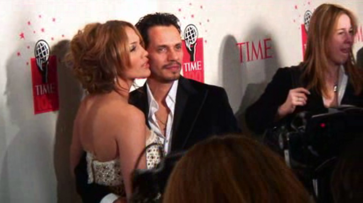 Time 100 2006 gala, Jennifer Lopez and Marc Anthony.